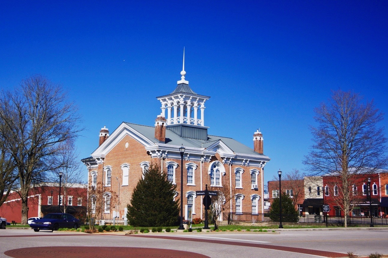 Coffee County Courthouse in Manchester, Tennessee, United States, viewed from the southwest.